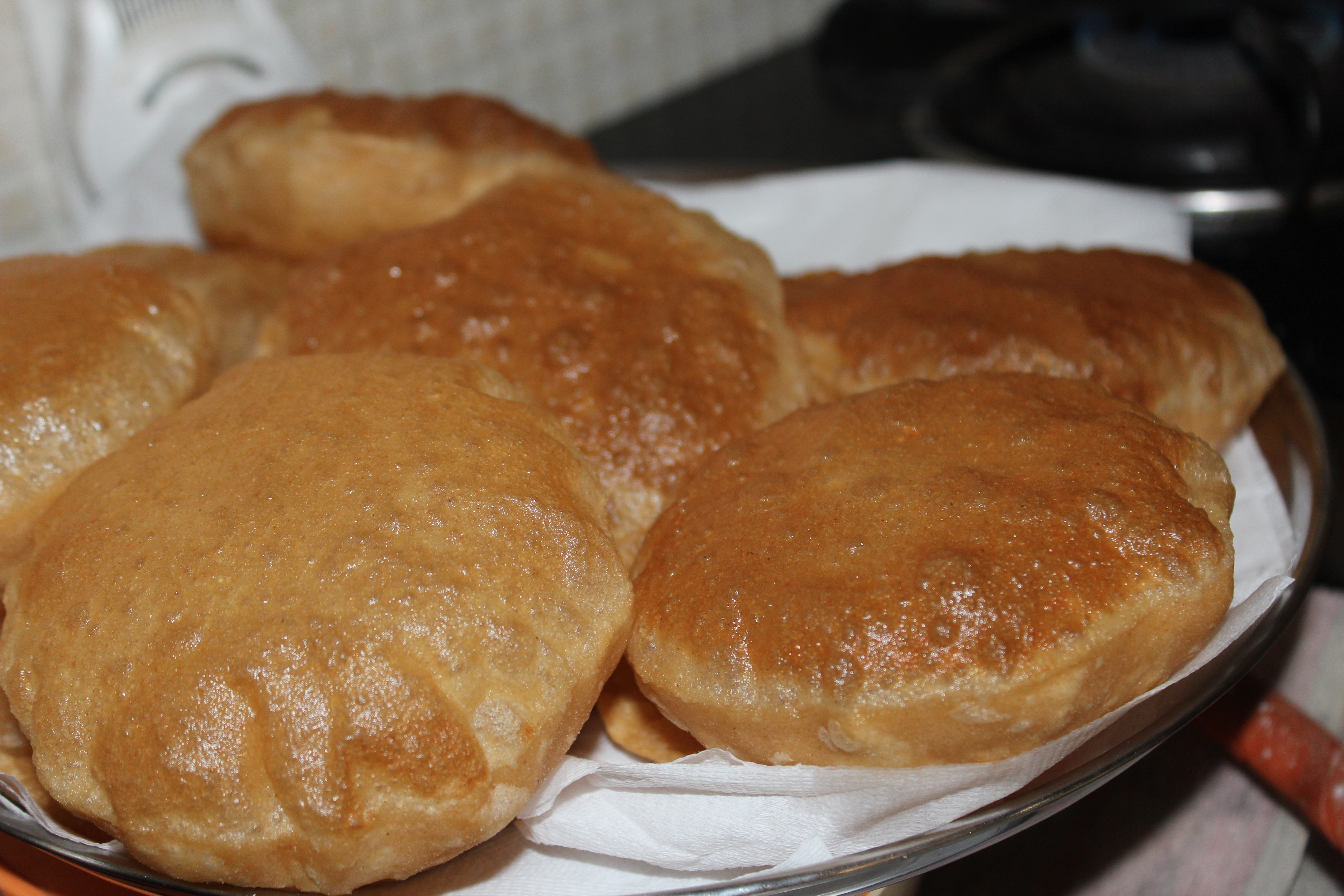 fresh puri taken from oil